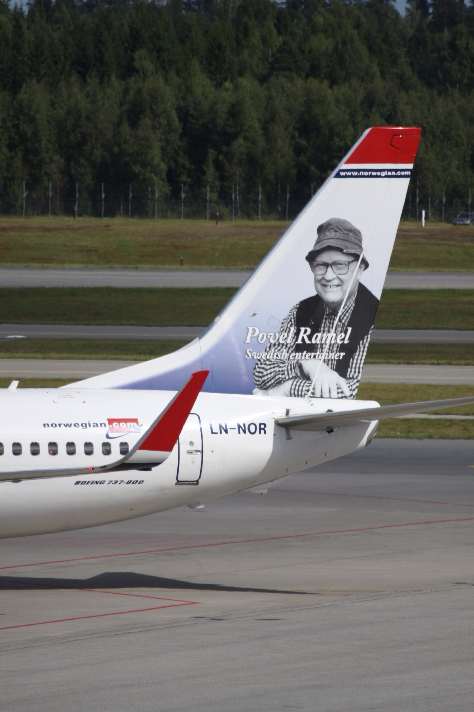 At Oslo Gardermoen